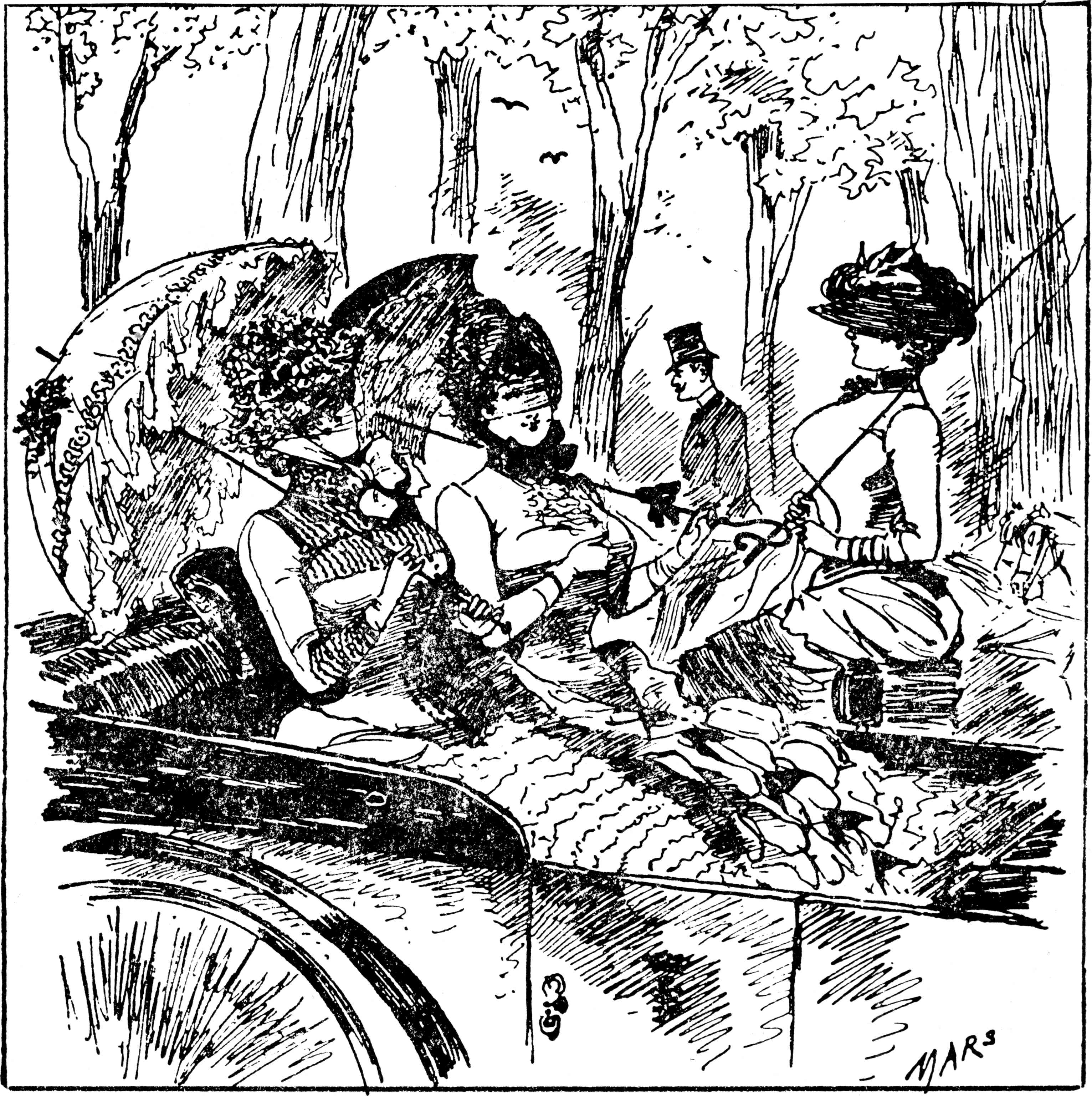 1881 drawing: Fashionable ladies with parasols in carriage